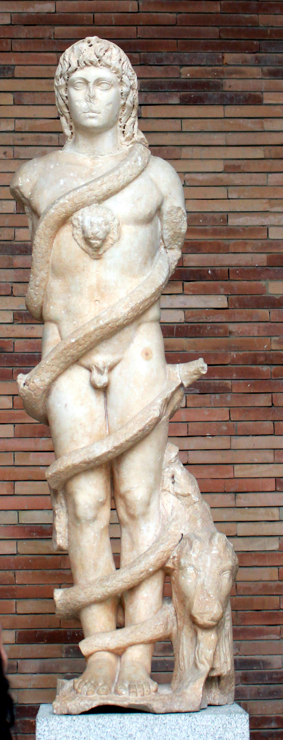 Mithraic Chronos. National Museum of Roman Art in Merida, Spain.